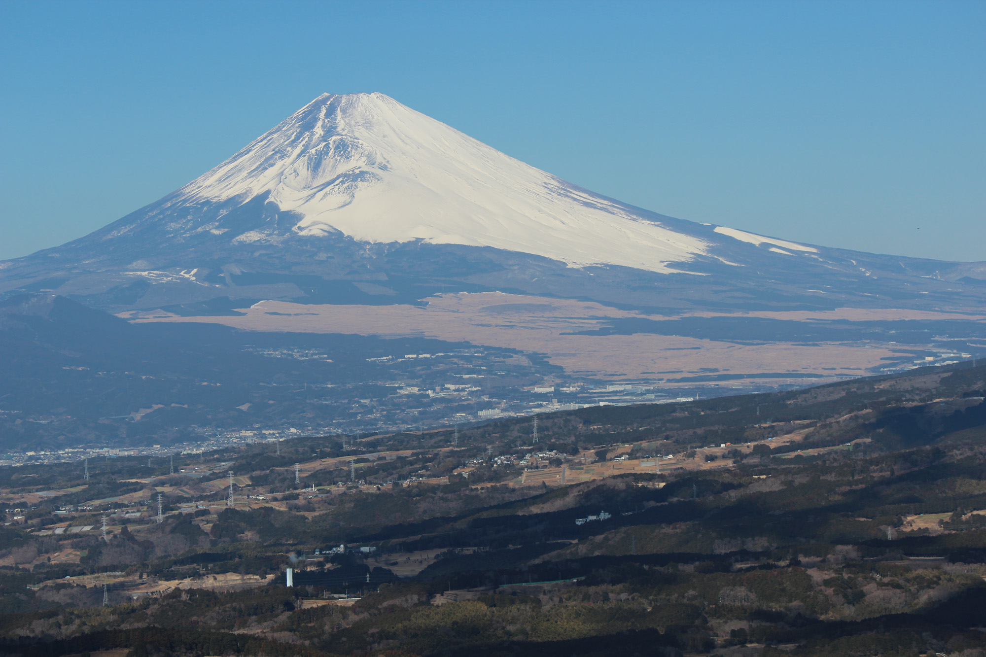 The Southeast side of Mount Fuji. Viewed from Mount Krotake, Shizuoka prefecture.